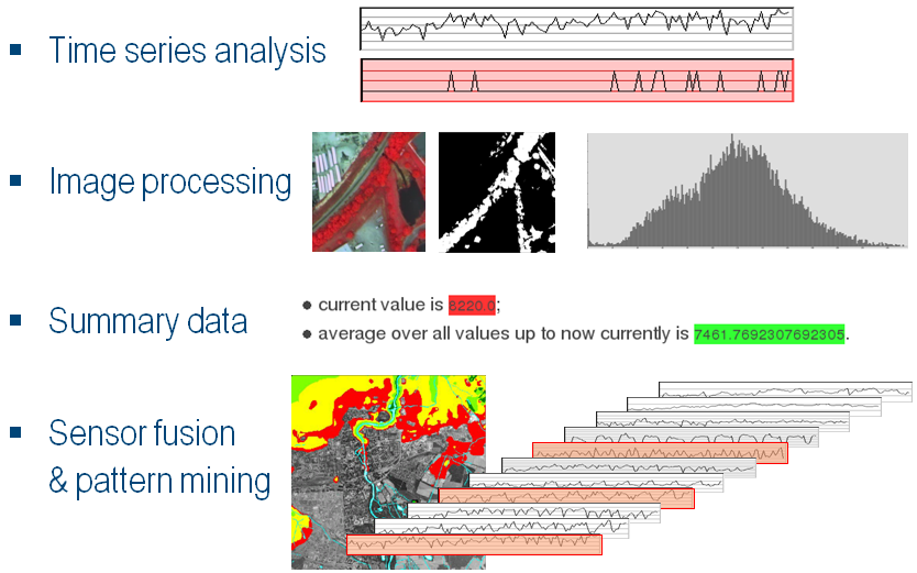 The image shows results obtained through queries using the OGC WCPS raster query language, which can be characterized as "XQuery for multi-dimensional rasters". Several of the examples can be exercised live on the [